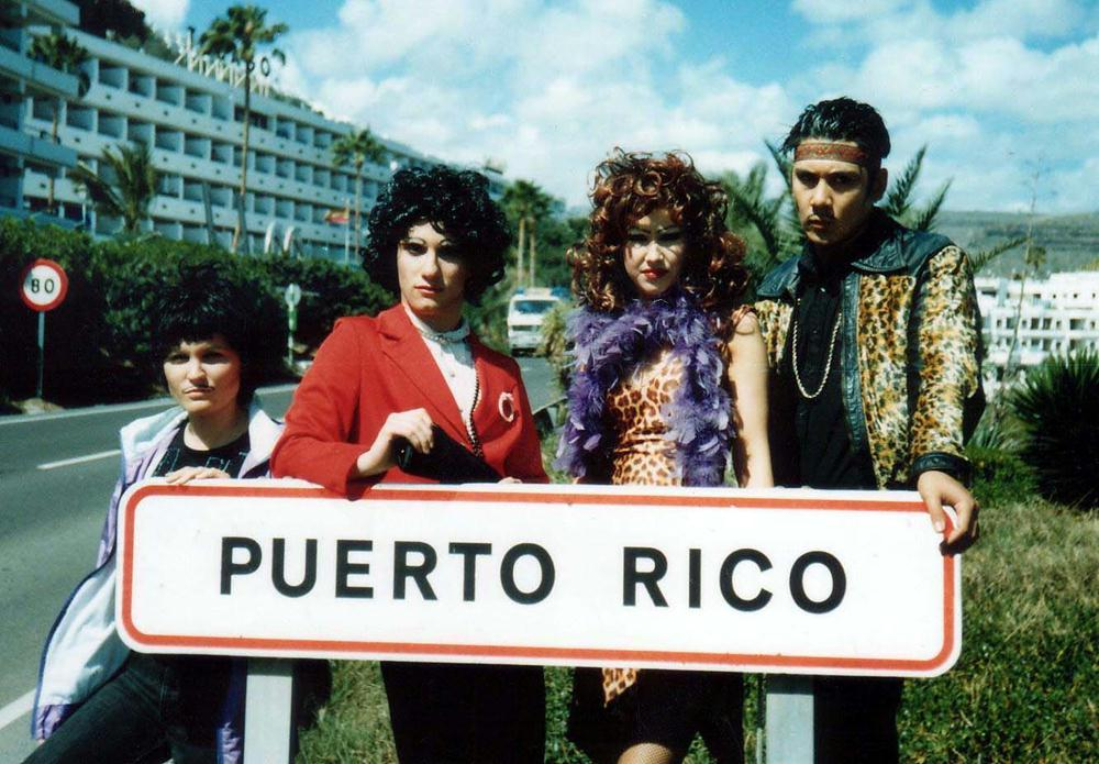 F.U.S.I.A. cast members for Wild Side Story (l-r: Claire Hesselbäck, Joseph Vila García, Martha Kippersund & Daniel Linder) on tour in Spain, as released by image creator F.U.S.I.A.Place: Roadside in Puerto Rico Village, Grand Canaria, Spain